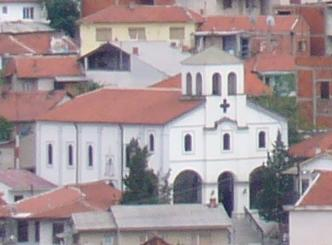 Dormition of the Theotokos Church in Veles, Macedonia.